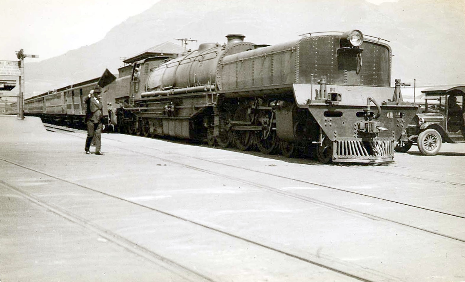 Class GH (4-6-2+2-6-4) Location: Monument Station, Cape Town